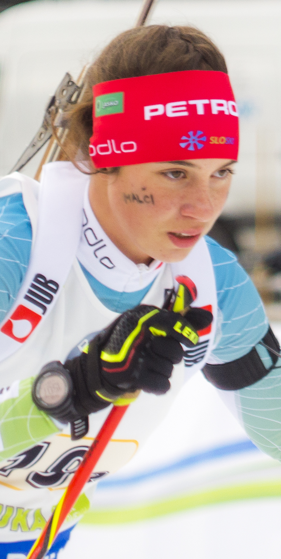 Biathlon, Women's Relay @ Pokluka